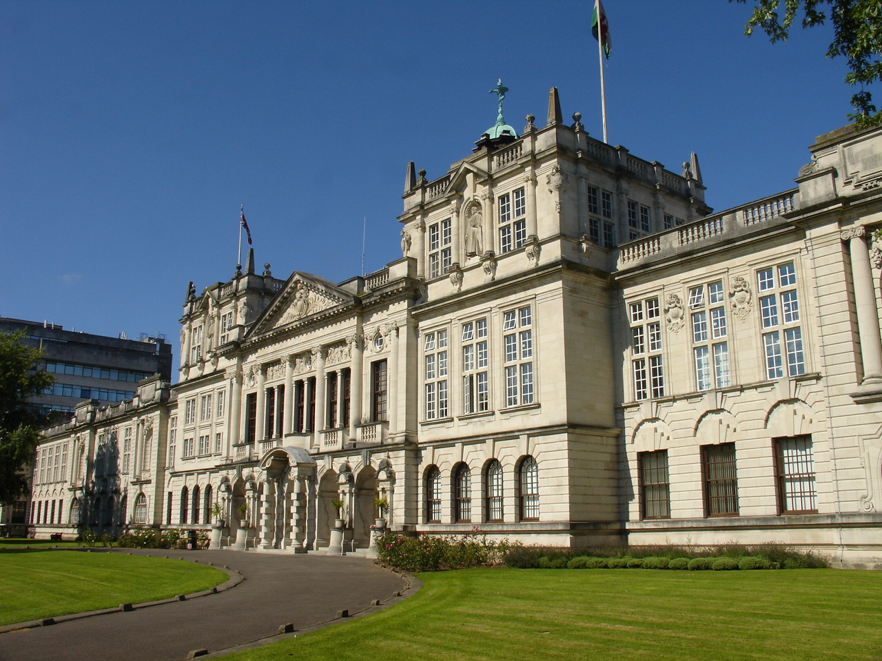 The main building of Cardiff University